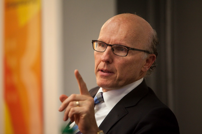 Public photo of David McCourt speaking at a university